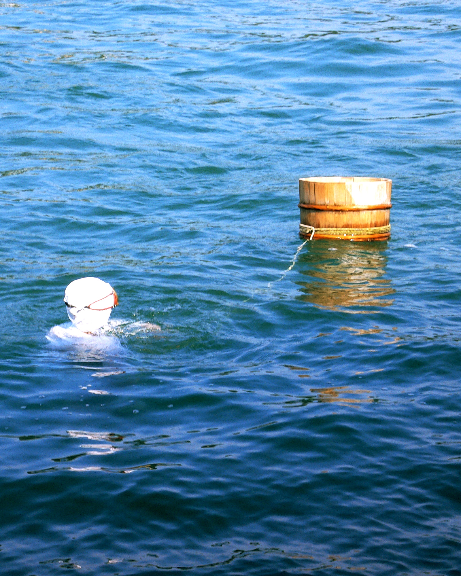 This photograph was taken at an Ama diving display on Mikimoto Pearl Island. Ama (海女) are female divers famous for collecting pearls in the Ise region of Mie prefecture. They played a crucial role in the success of Mikimoto`s pearl company. The word ama literally means "sea person". Until the 1960s, they dived wearing only a loincloth, and even now they dive without scuba gear or air tanks. It's supposed that the majority of ama are women because women naturally have more body fat, which ensures that they can stay warmer in colder water. Here is a link to a recent article in the Guardian.